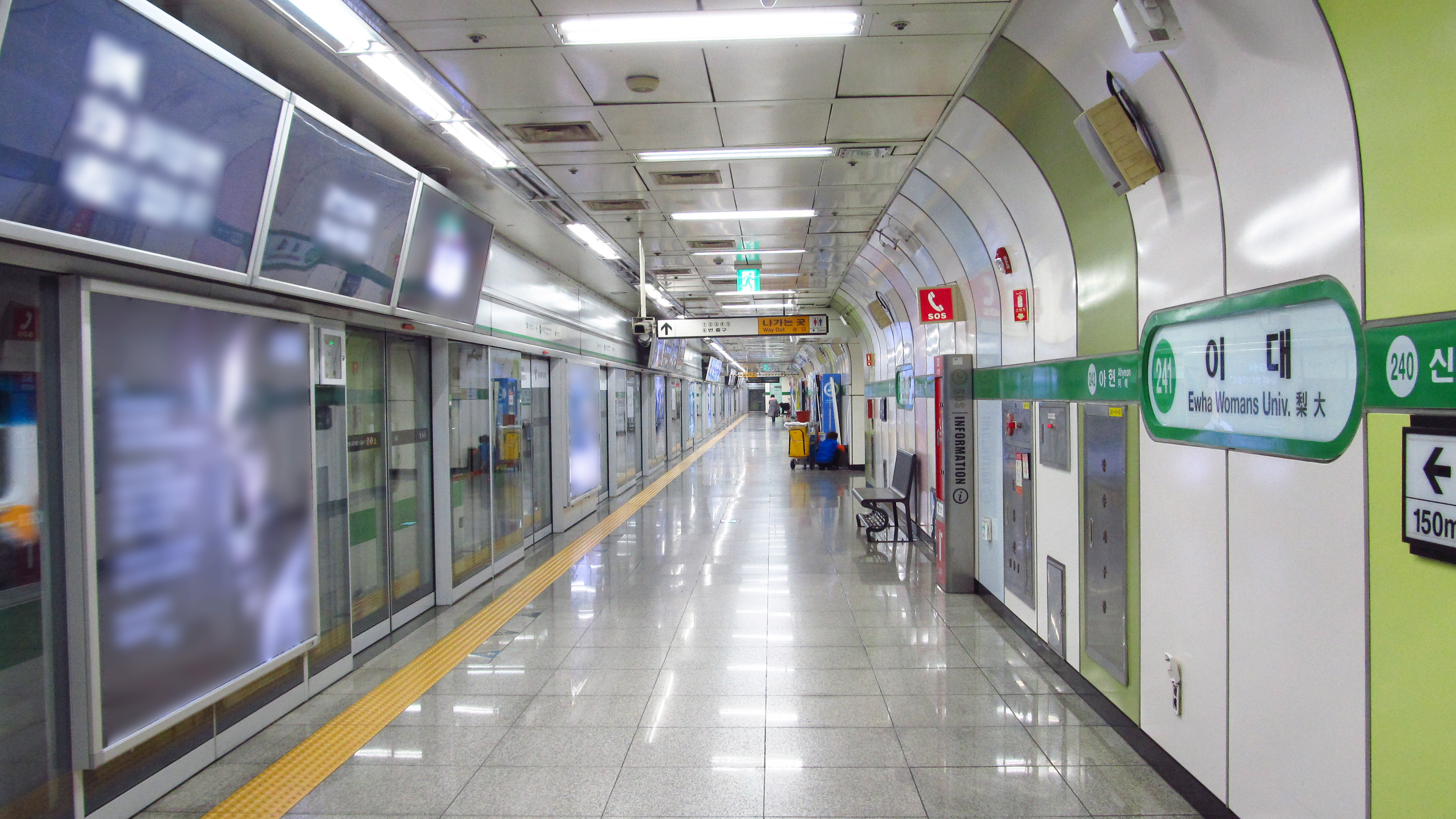 The platform at Ewha Womans University Station on Seoul Subway Line 2 in Mapo-gu, Seoul, Republic of Korea(South Korea)